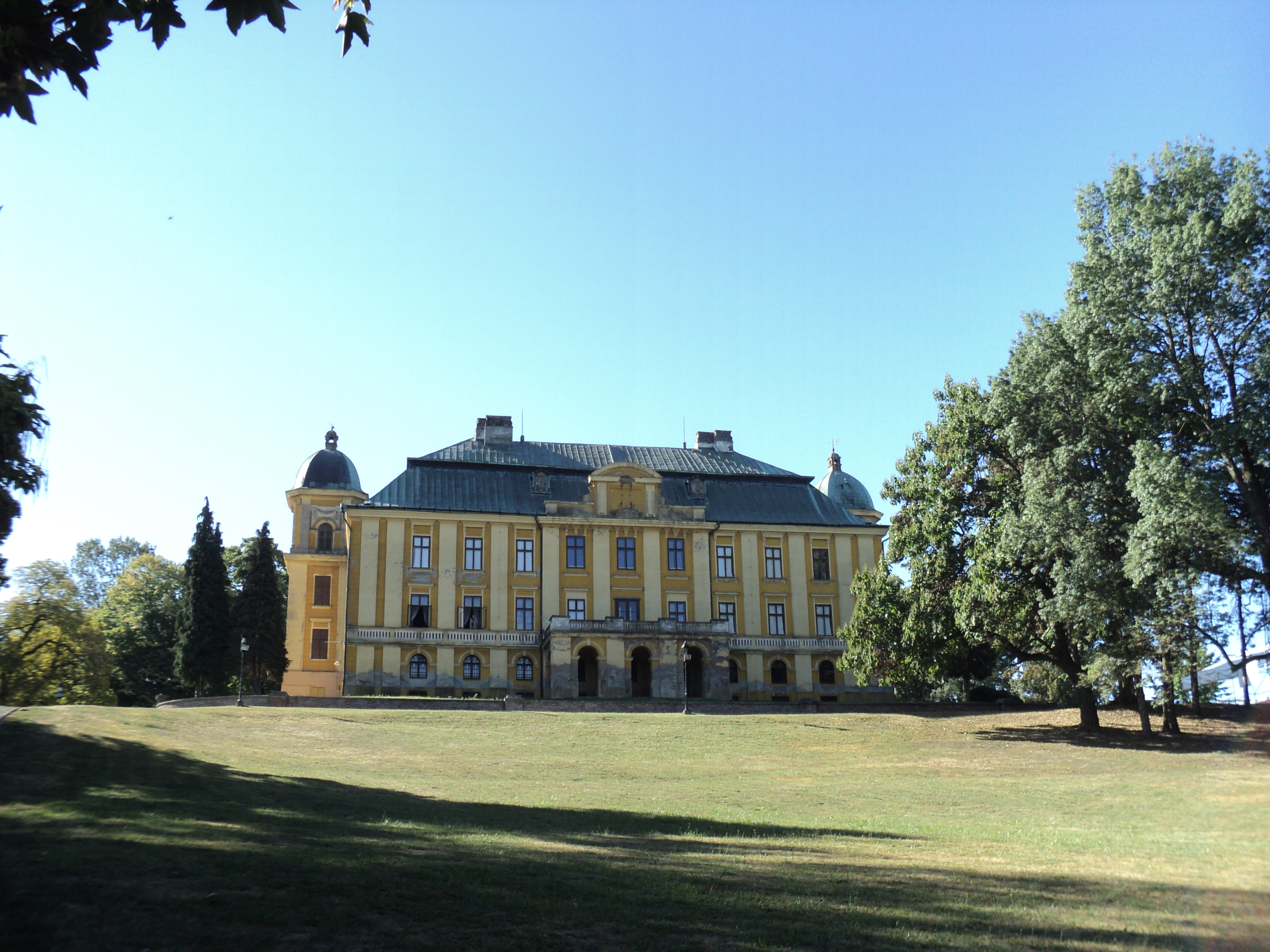 Pejačević castle in Našice.